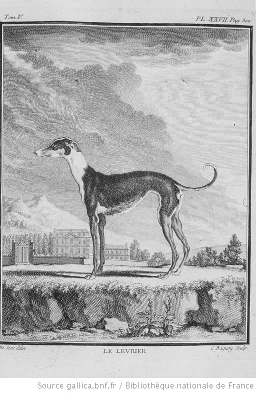 Greyhound